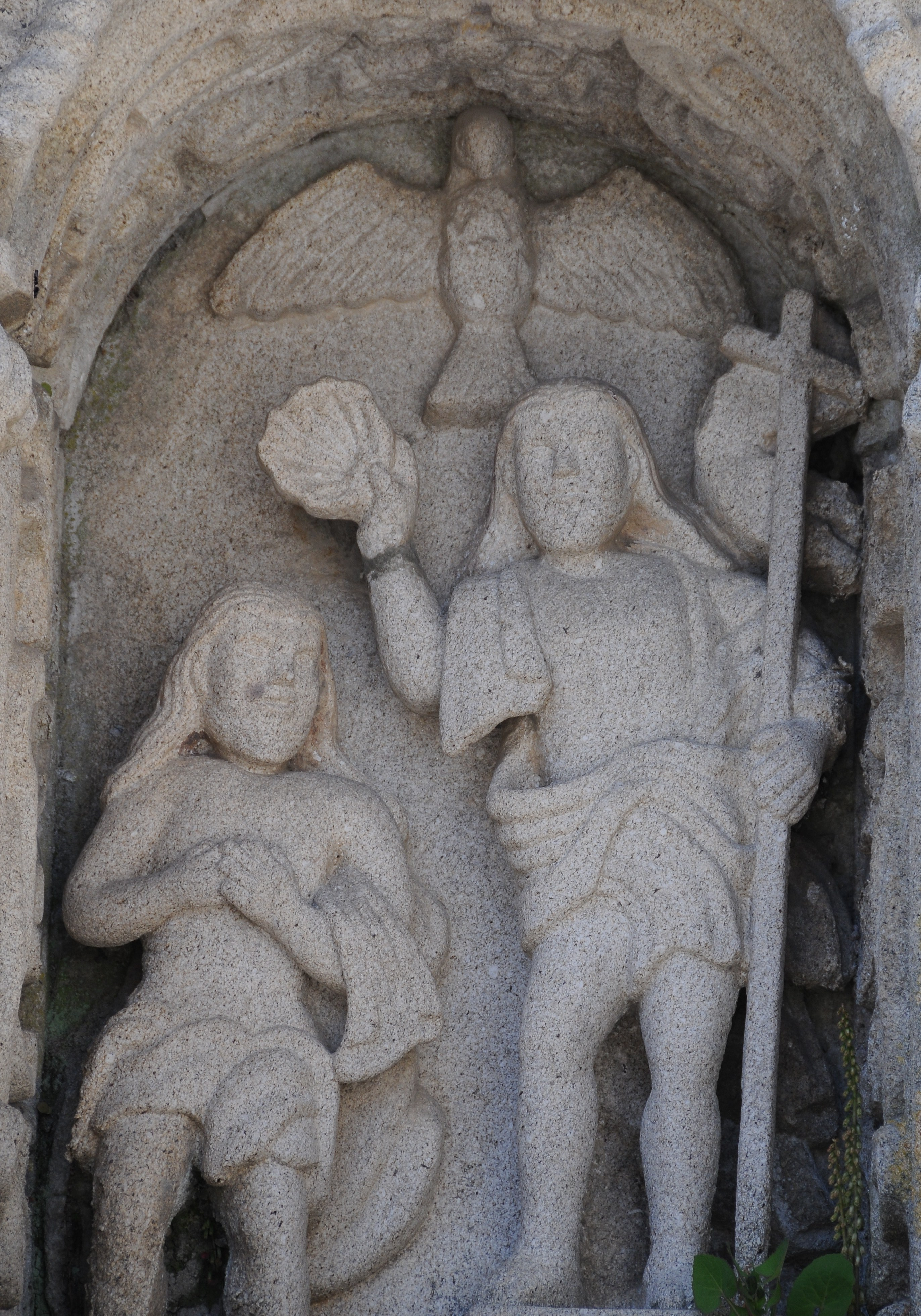 Relief of Baptism of Christ St John the Baptist fountain, Melgaço, Portugal